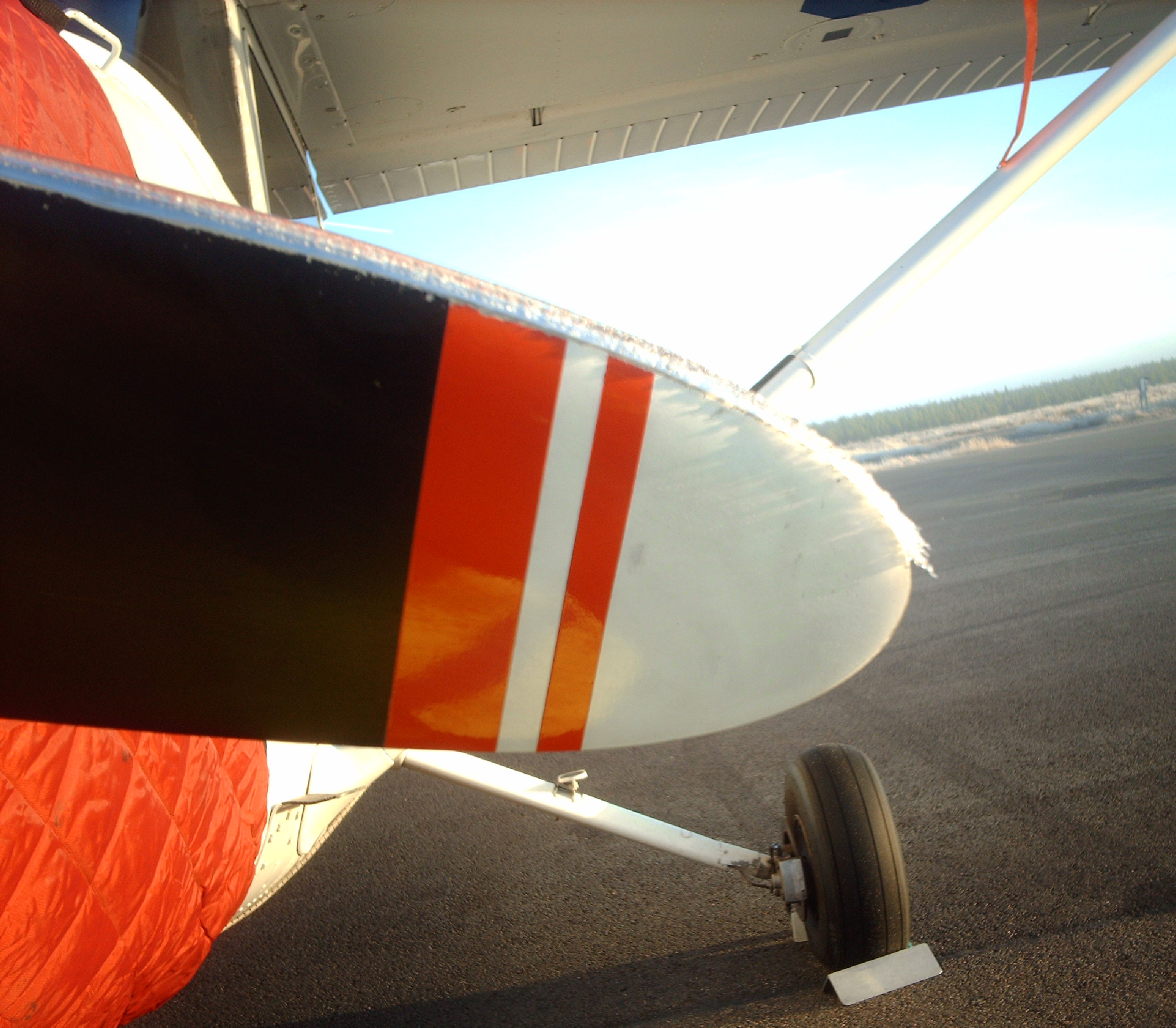 Ice-build at the leading edge of a propeller, shortly after an engine-run (ground based) in supercooled fog.